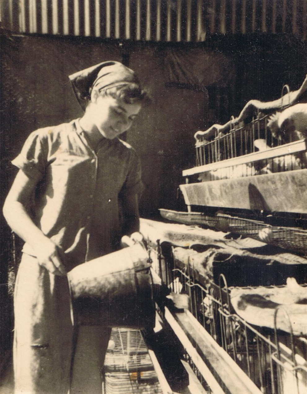 distribution of food in a chicken coop